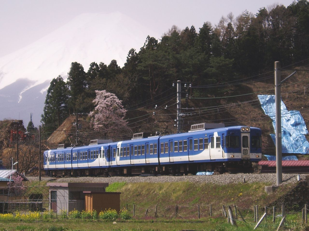 A pair of Fujikyu 1000 series EMUs on the Fujikyuko Line Mitsutouge and Kosobuki stations